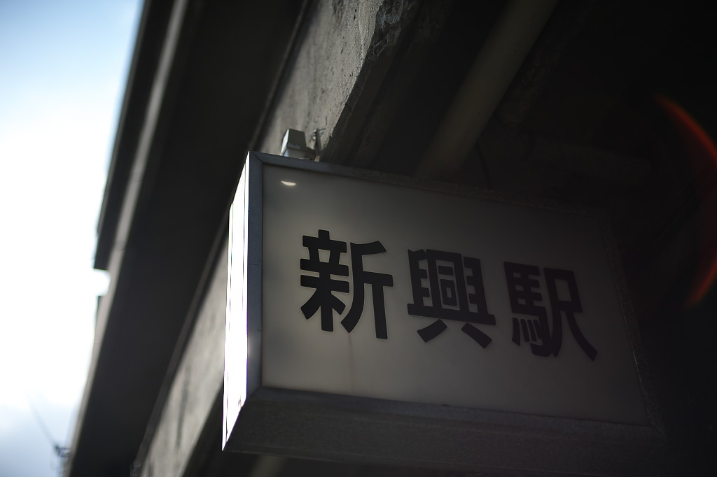 Japan Freight Railway shinkou station